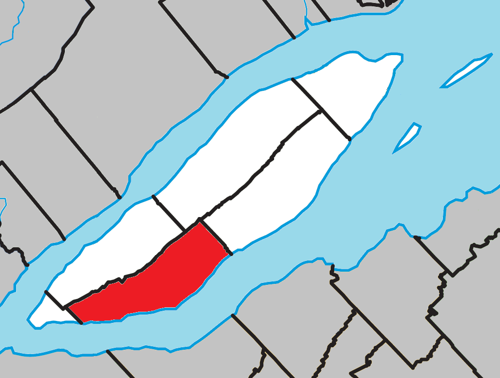 Location of Saint-Laurent-de-l'Île-d'Orléans, Quebec within L'Île-d'Orléans Regional County Municipality.